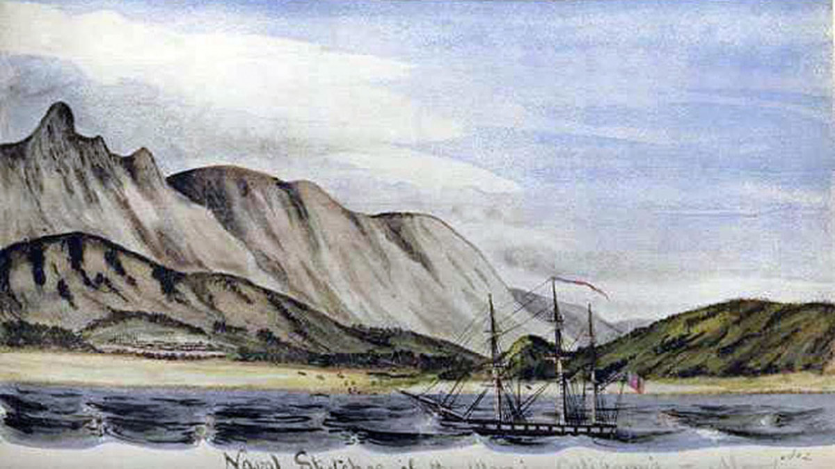 Watercolor of USS Dale off San Jose del Cabo in 1847 during the Mexican War. By Seaman William H. Meyer